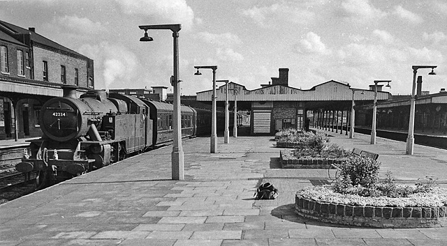 Willesden Junction Station (Main Line). View eastward, towards Euston; ex-London & North Western West Coast Main Line (WCML), major junction with North London and West London Lines. The High Level Station is just visible straddling the Main Line platforms. 'New' Station, on the electrified Euston/Broad Street - Watford Junction lines, shared with LT Underground (Bakerloo Line) trains (to Harrow & Wealdstone only since 24/9/82), is over to the left. The Main Line platforms were closed on 3/12/62, before the WCML was electrified. The locomotive is an LMS Fairburn 4MT 2-6-4T, working empty stock from Euston.